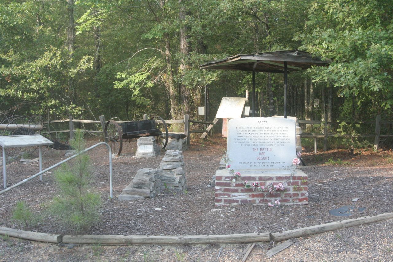 "Folk interpretation" put up by regular folks and history buffs at the actual site of Mark's Mill. Photo by Carl Carlson-Drexler.